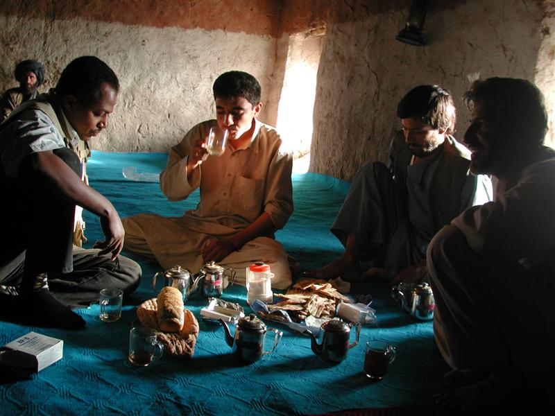 Sharing tea after a long ride and a good night's rest - on the way to Ghor province, Afghanistan.